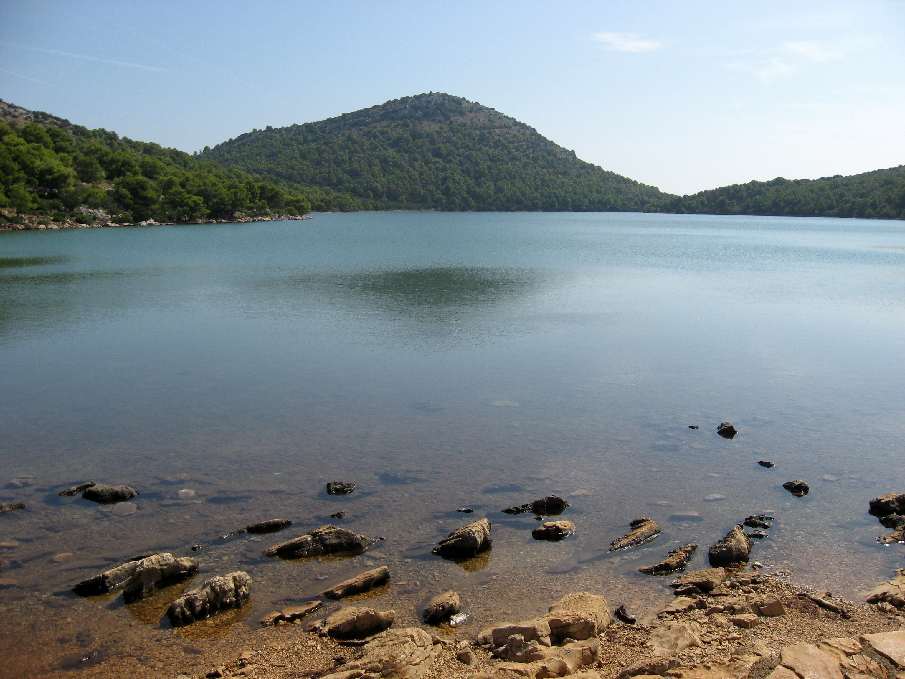 Salt lake Mir in nature park Telascica. Croatia